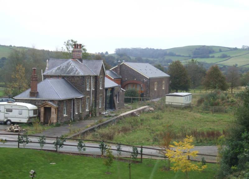 Dulverton Station facing in the Morebath direction in 2007